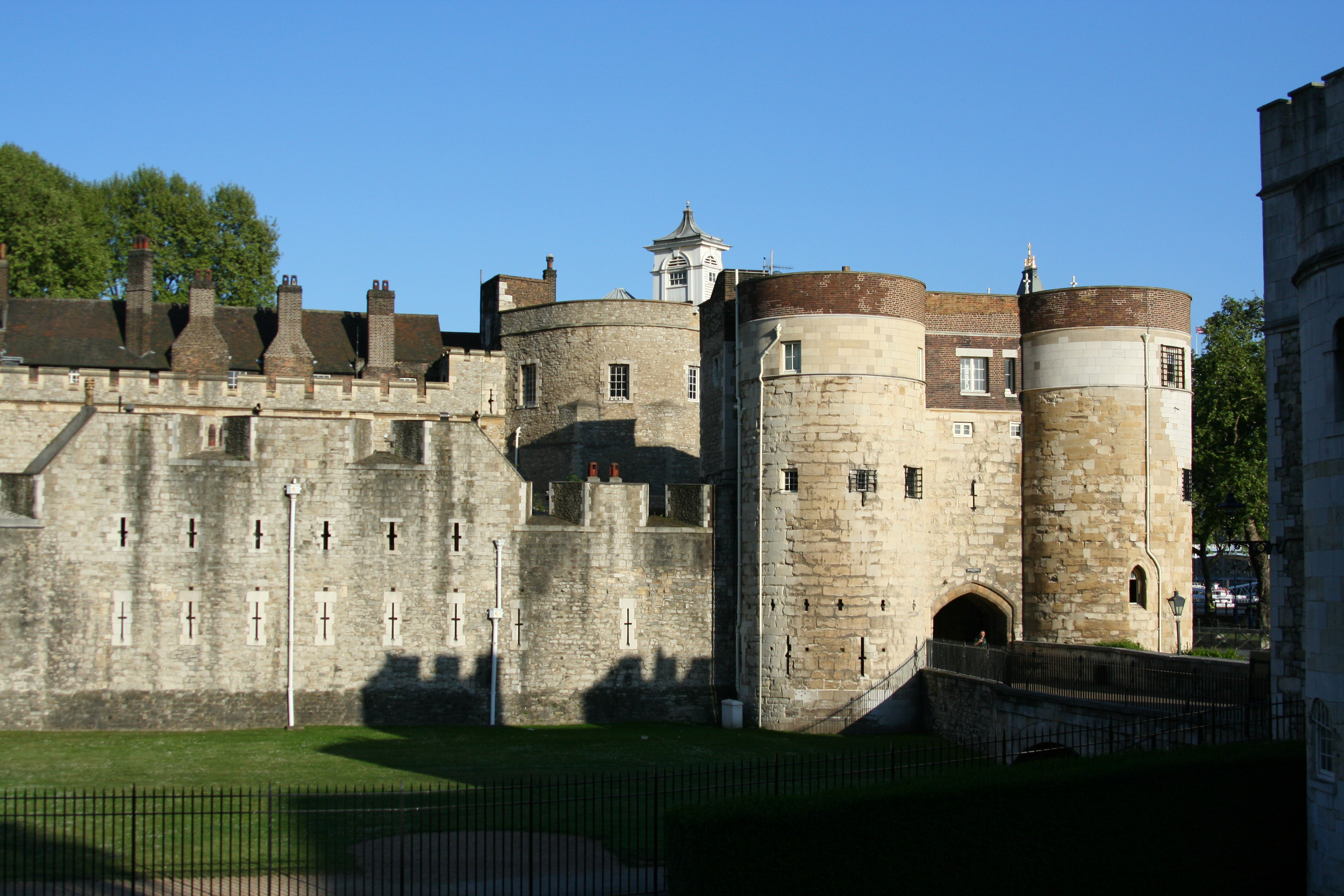 Tower of London/London, Byward Tower Outer Wall and a part of the Bell Tower in the background